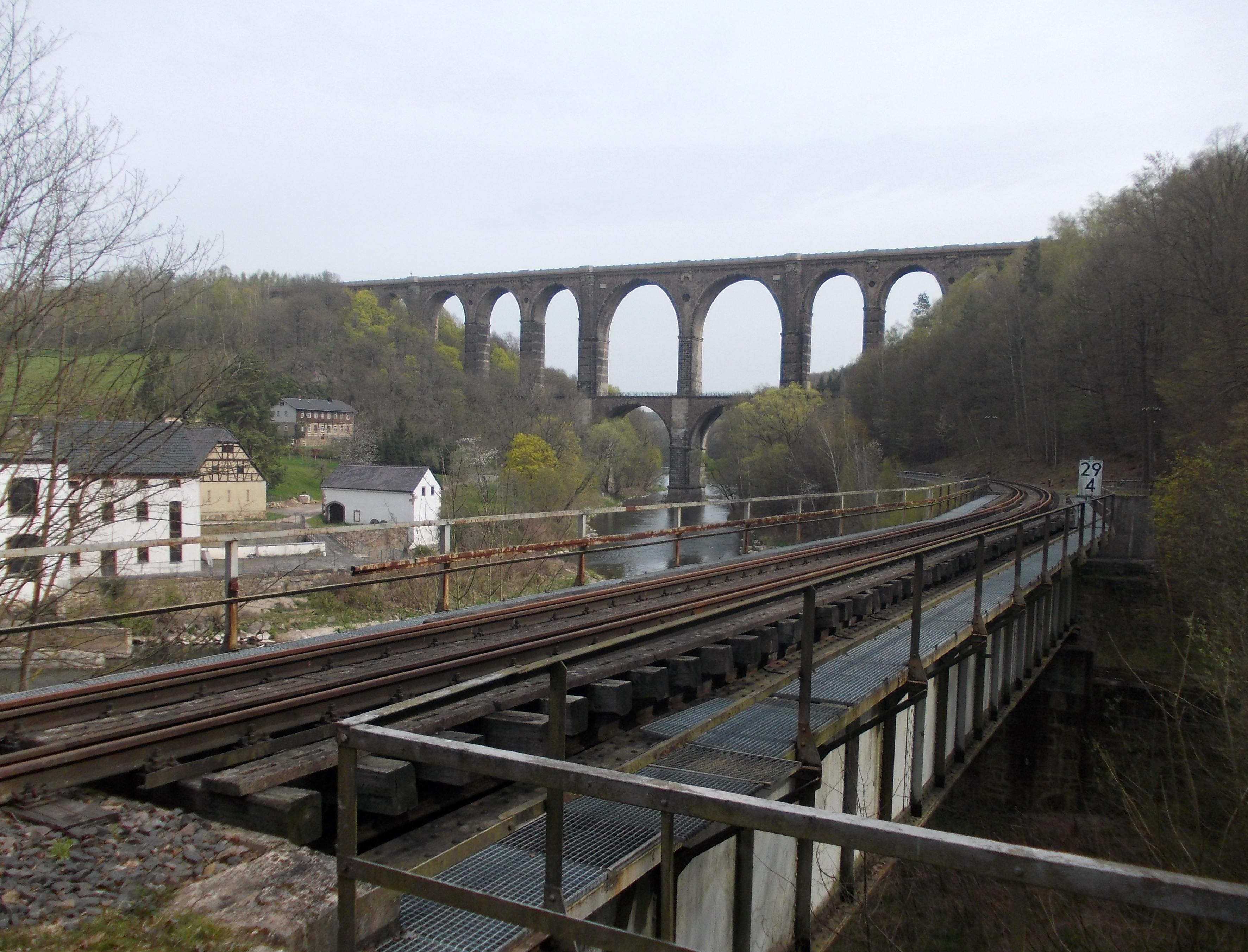 The viaduct of Göhren (Wechselburg, Mittelsachsen district, Saxony) and Mulde valley railway line